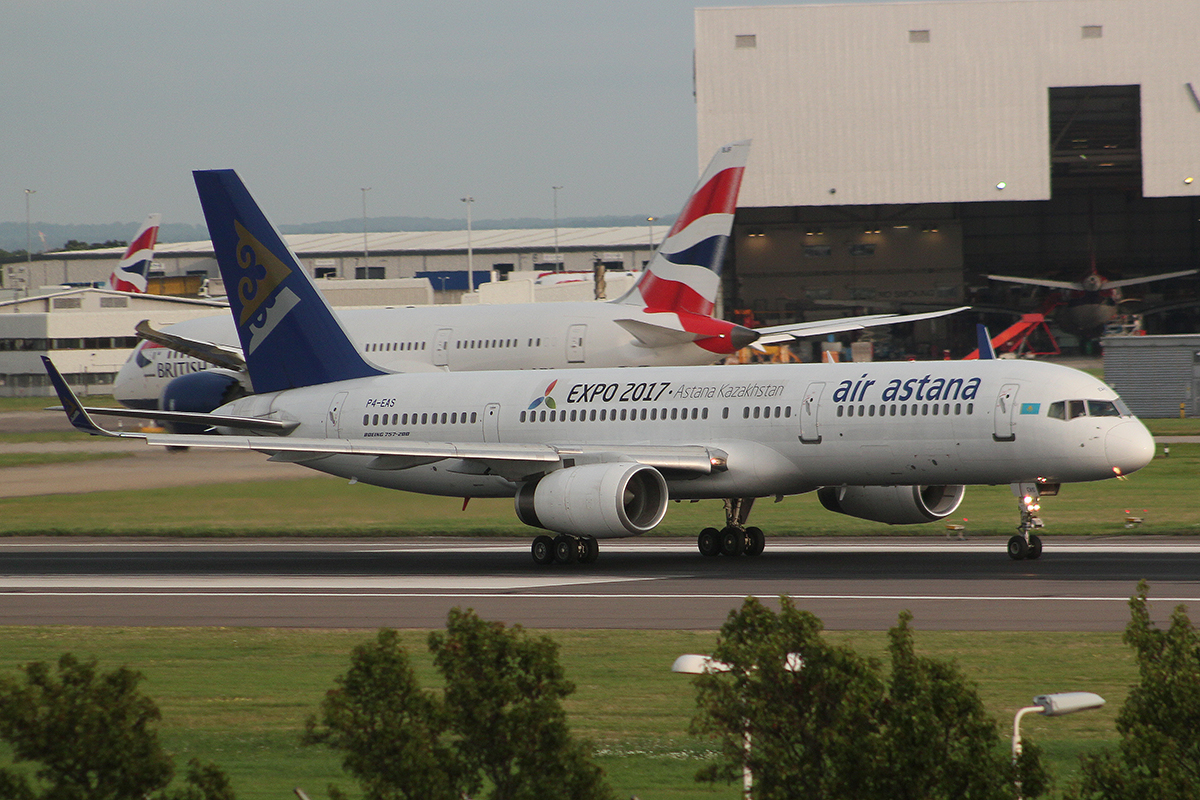 P4-EAS Boeing B757-2G5 @ Heathrow 24/08/2017